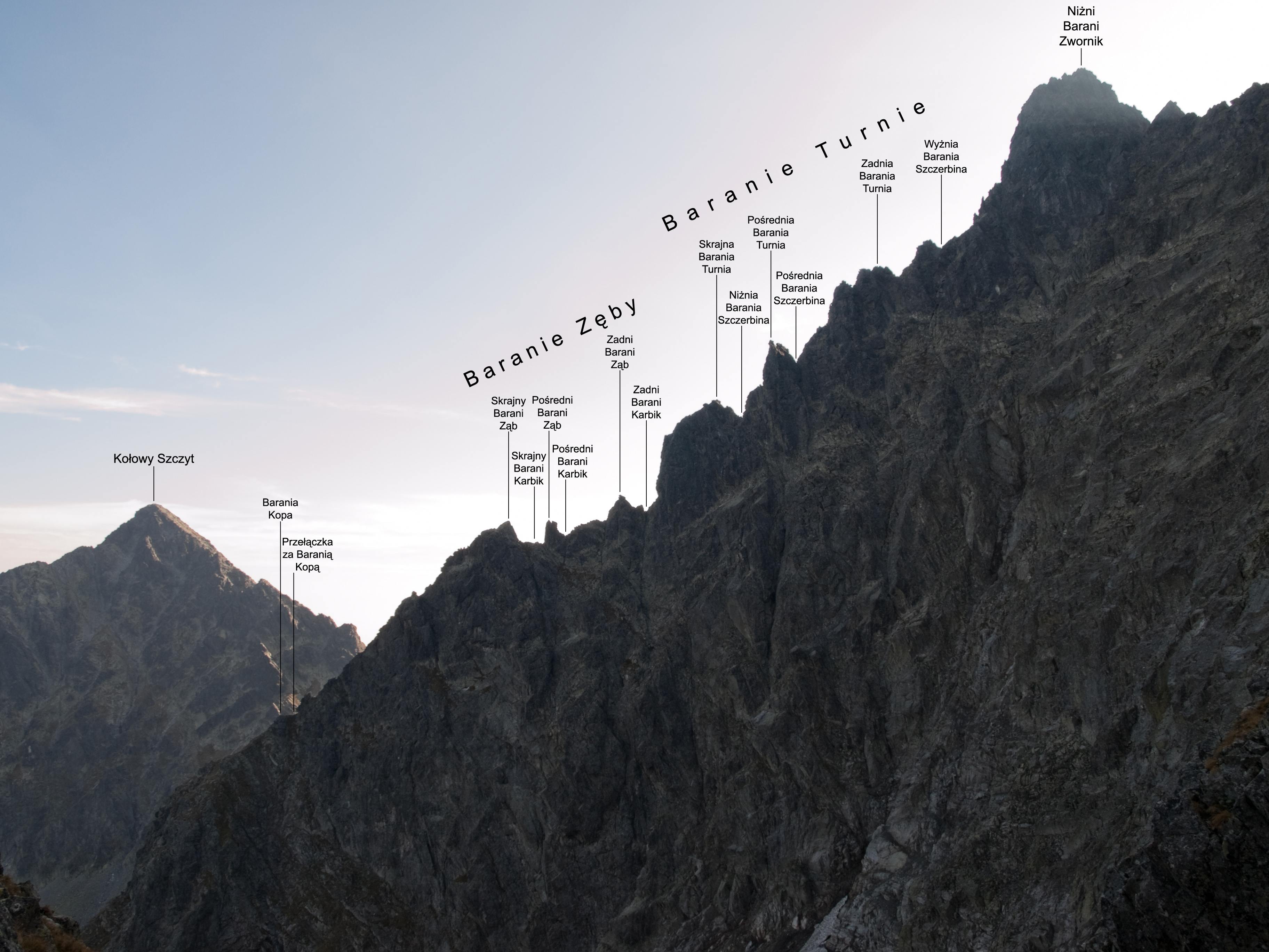 Hrebeň Baraních veží - view from the couloir of Prielom pod Snehovým in the upper part of Čierna Javorová valley. Polish names of peaks and saddles.